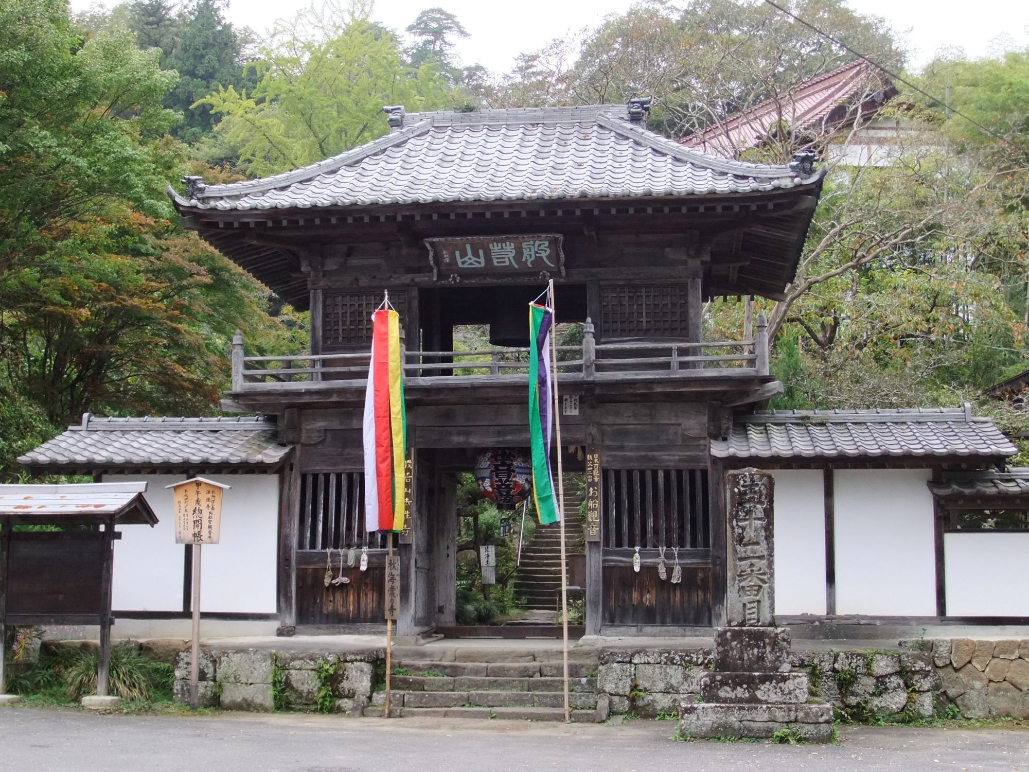 Nio gate of Hoshoji temple in Ogano Town, Saitama Prefecture, Japan